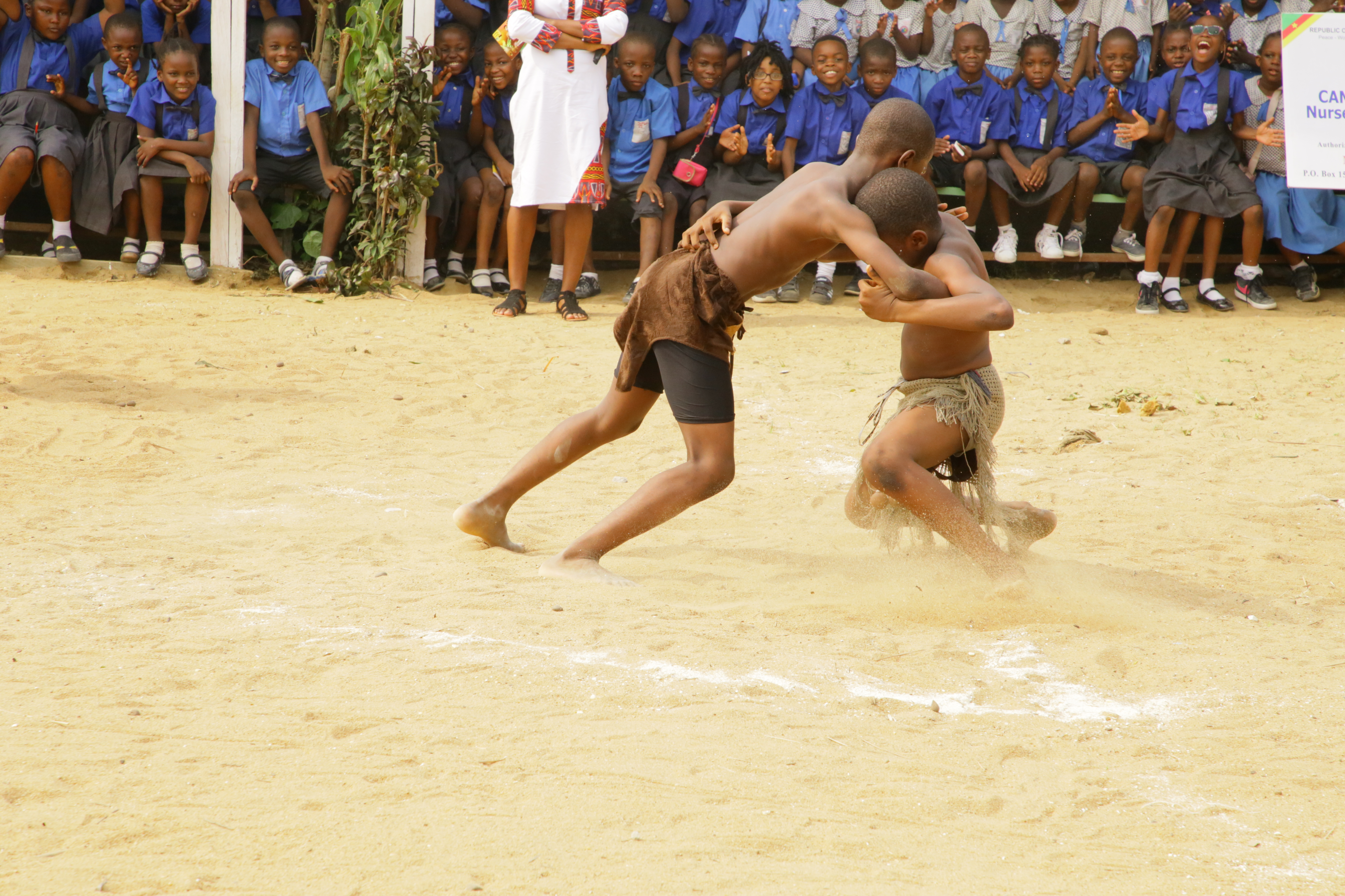 This is an image with the theme "Play" from: Cameroon